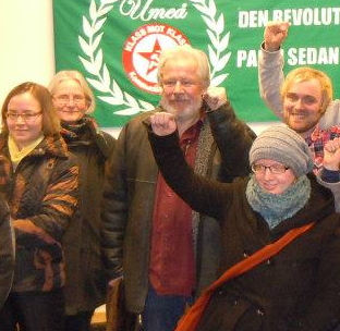 Sven Wollter, center, together with Communist Party members and sympathisers from Umeå after a meeting in Umeå Folkets Hus at which Wollter held a speech. Cropped version.